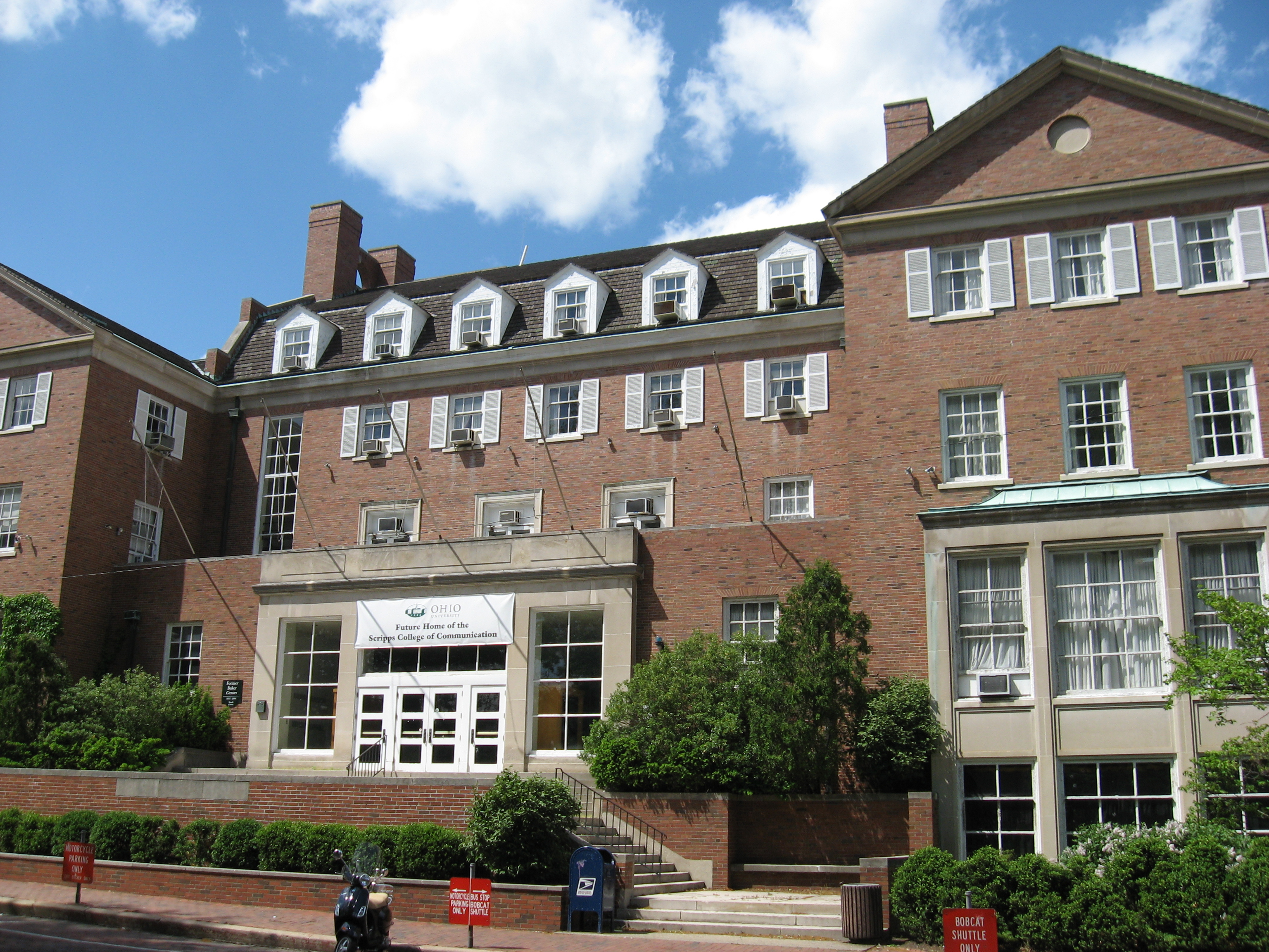 Old Baker Center, future home of the E. W. Scripps School of Journalism at Ohio University (Athens, USA)